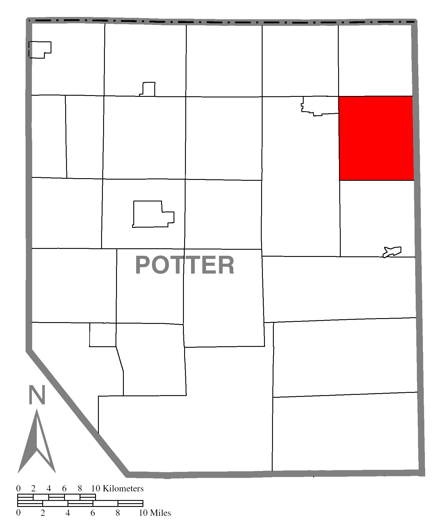 A map of Potter County showing Hector Township, Pennsylvania (alternate) highlighted on the map.